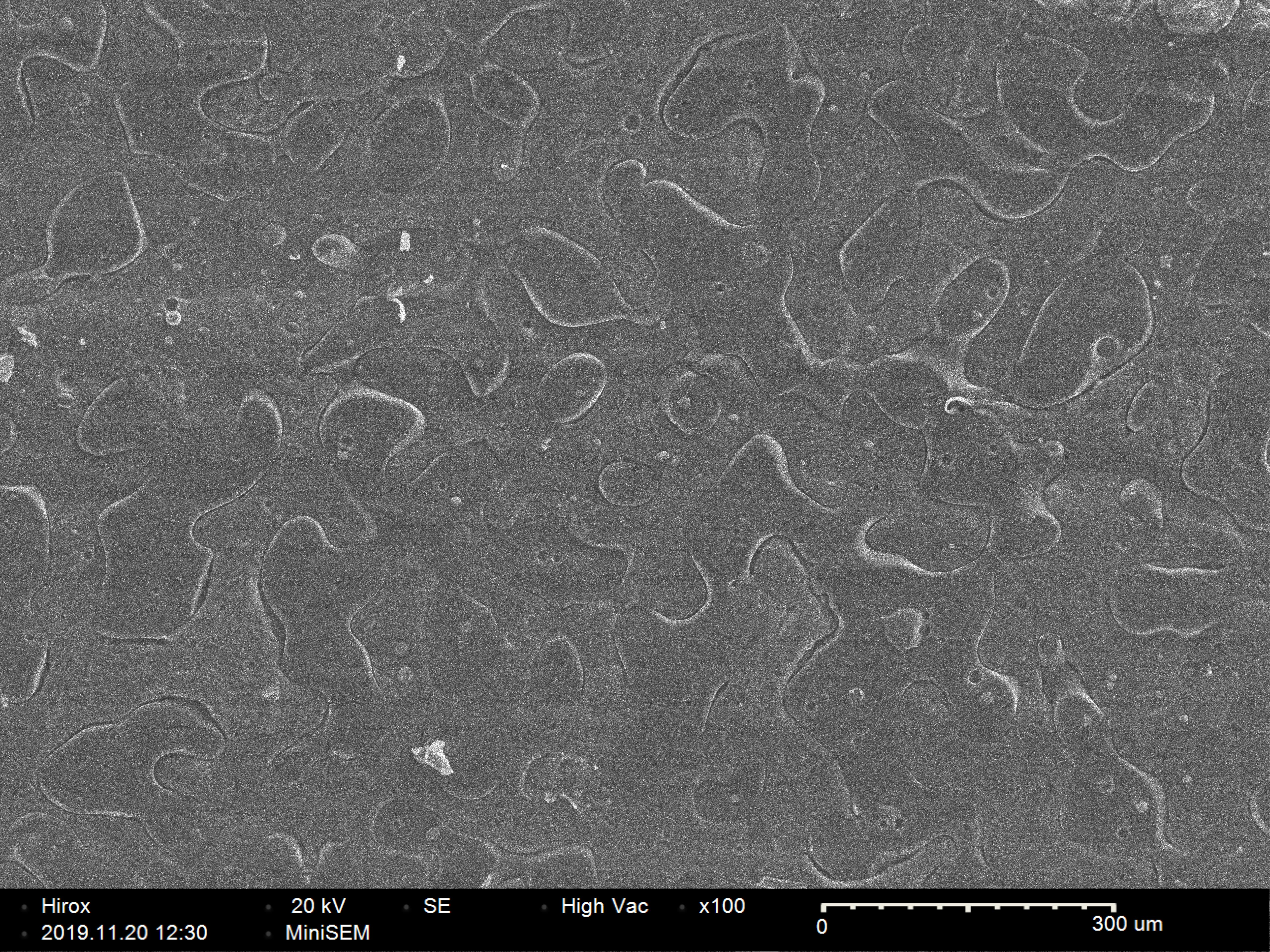 This SEM (scanning electron microscopy) image depicts a co-continuous blend of two incompatible polymers : polyethylene-co-octene and polyethylene oxide. This blend is not homogeneous because the polymers are not compatible. It leads to irregular shapes that percolate the sample, giving a co-continuity phenomenon. Additionnally to this structure, there are droplets of a polymer in the other one. Image taken at Ingénierie des Matériaux Polymères laboratory, based in Université Jean Monnet in Saint-Etienne.